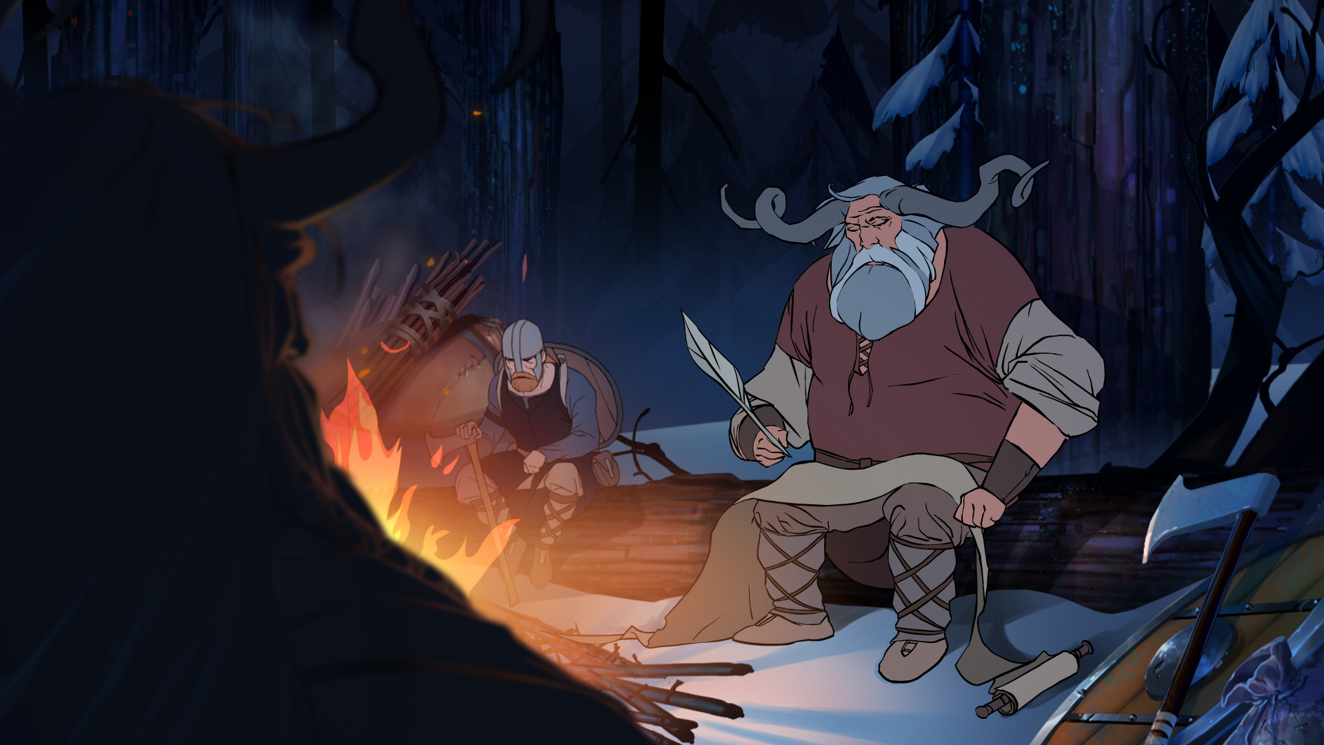 Development artwork from the video game The Banner Saga.